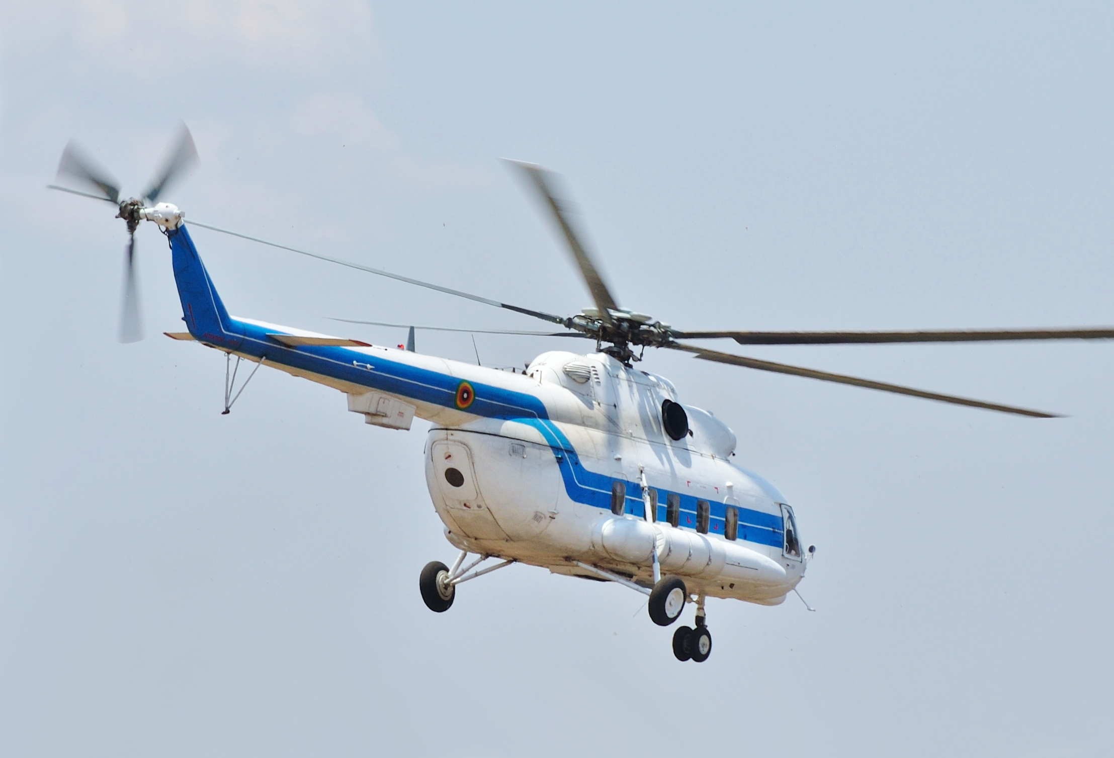 Zimbabwe Mil Mi-8